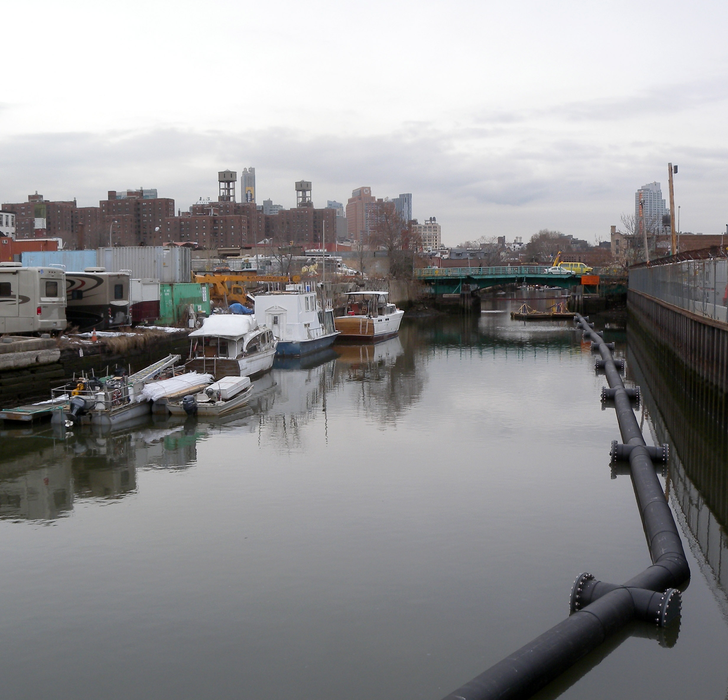 Looking north from Carroll St Bridge at boats in Gowanus Canal on a cloudy afternoon.